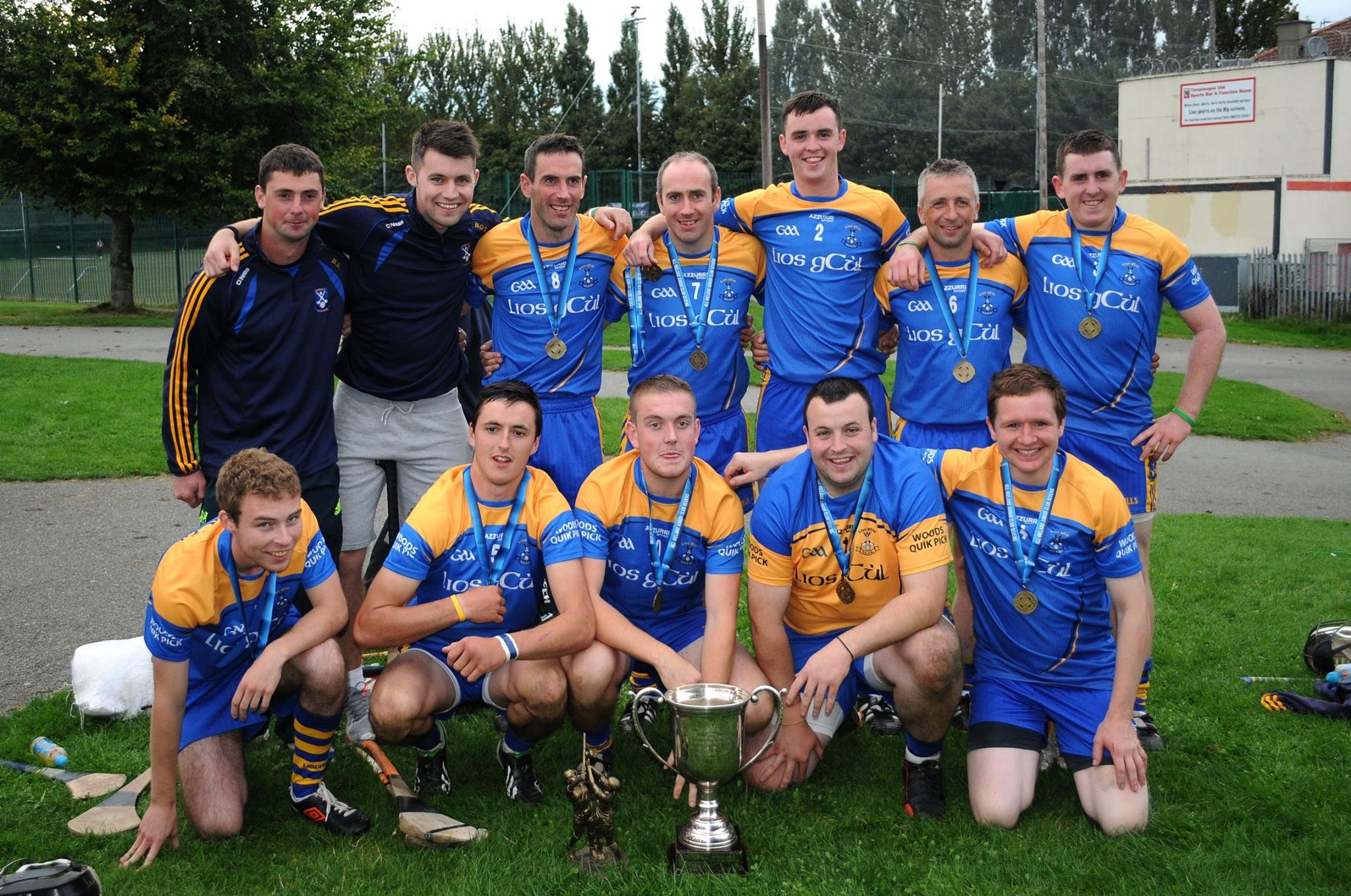 Junior Hurling Sevens Squad 2014 - All-Ireland Champions 2014